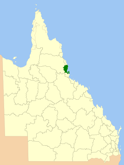 Location of the Local Government Area in Queensland